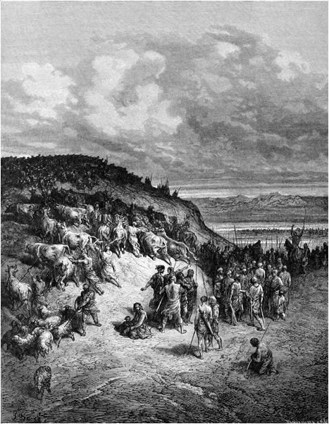 The Ottomans Penetrate Hungary.